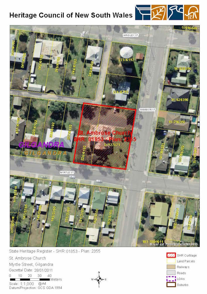 St Ambrose Church, Gilgandra: SHR Plan 2355